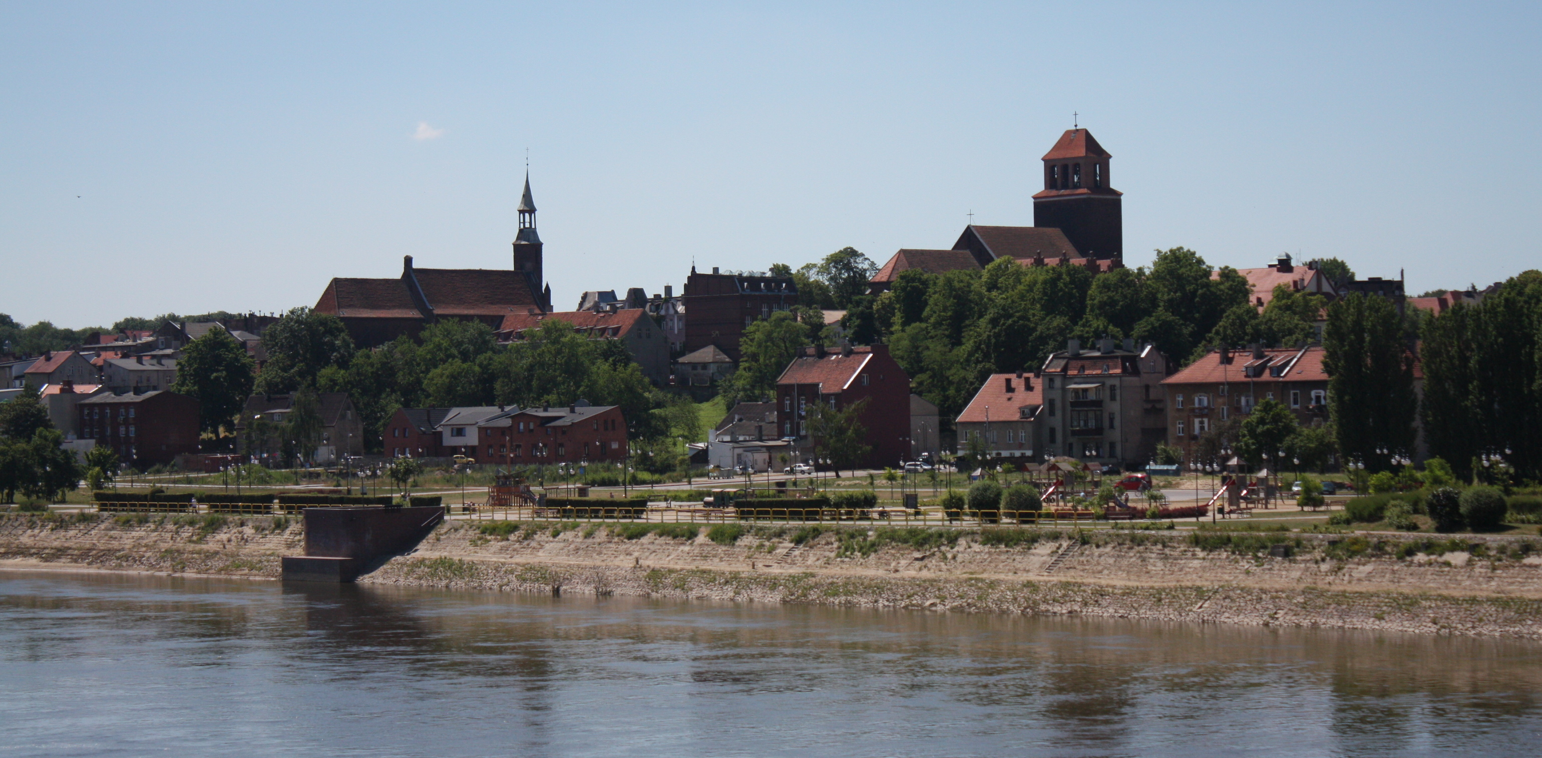 Tczew, View of Old Town from Old Bridge